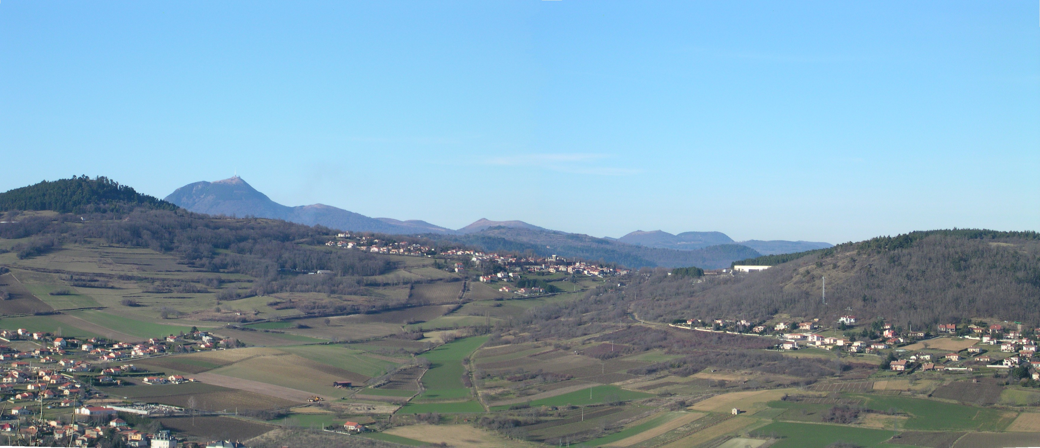 The village of Opme with the Chaîne des Puys in the background (Commune of Romagnat, Puy-de-Dôme, France)